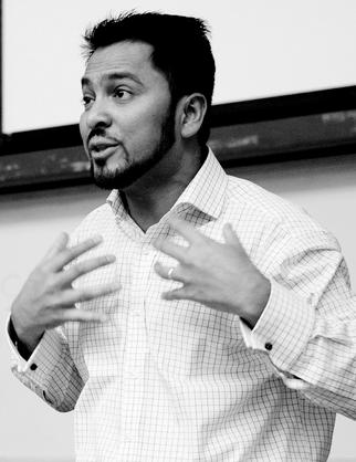 Imam and broadcaster Ajmal Masroor gives a talk entitled "Is Sharia Law Compatible with the UK?" as part of Islamic Awareness Week at Lancaster University.